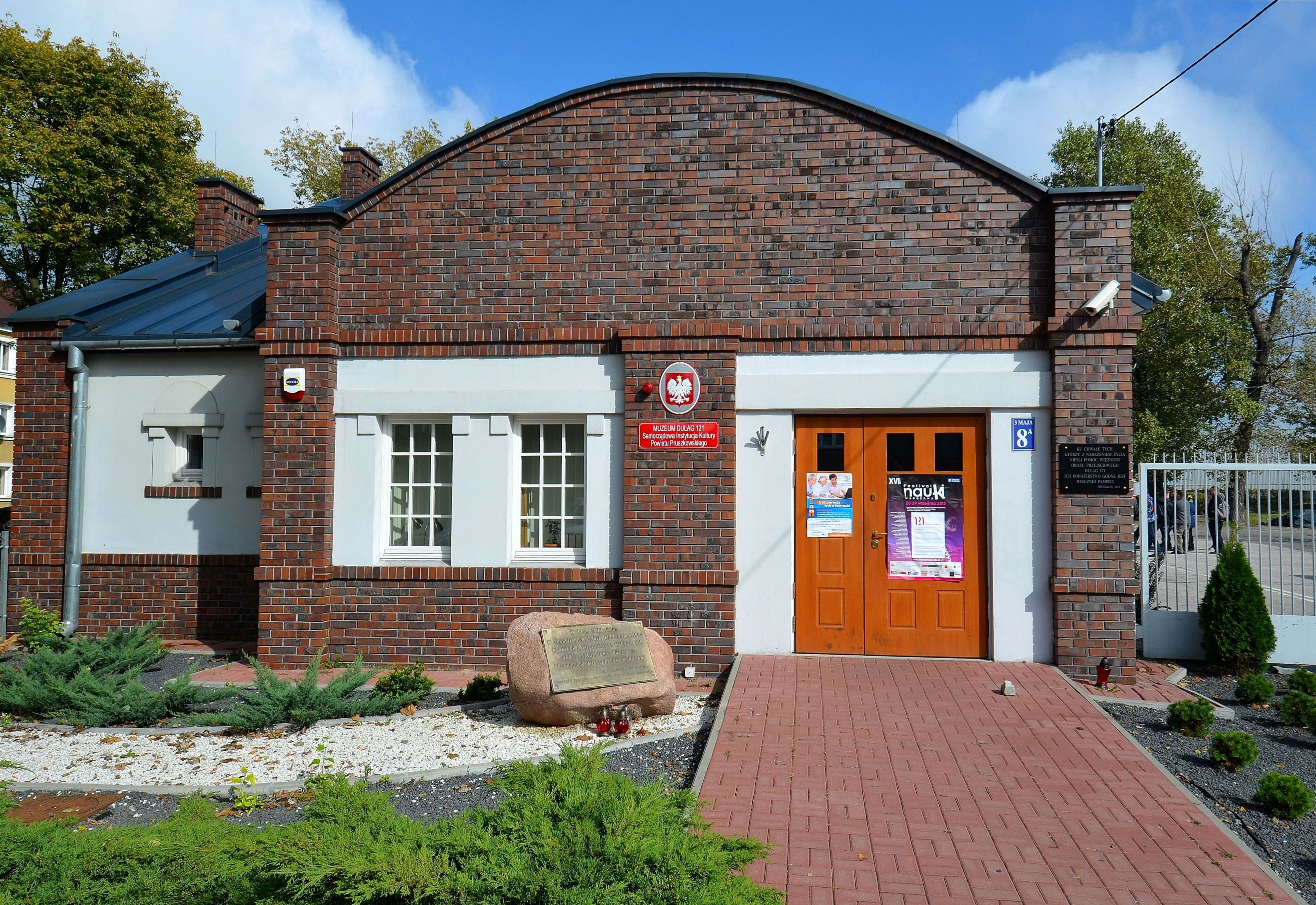 Dulag 121 Museum in Pruszków